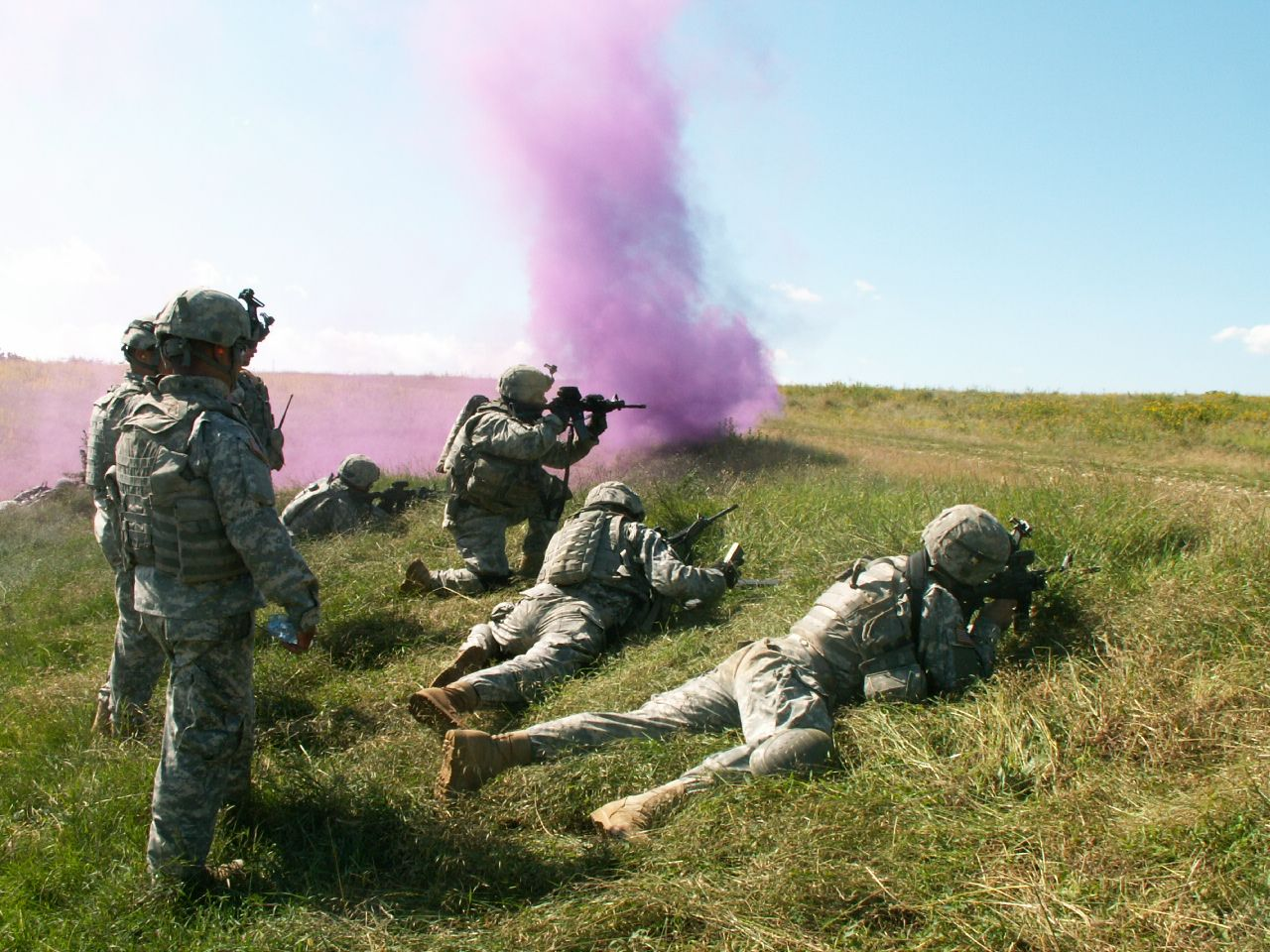 184 Infantry in Kosovo